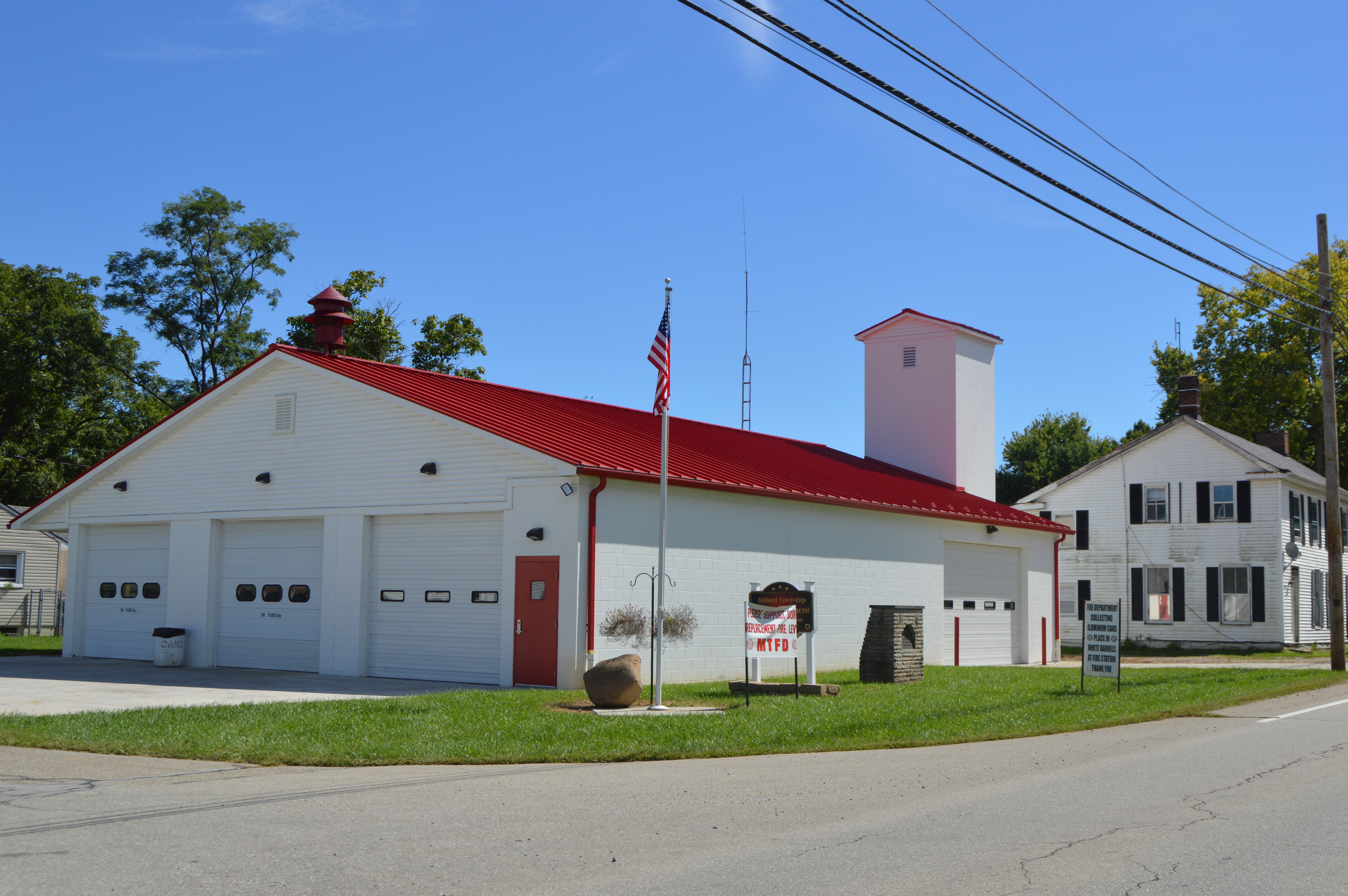 Northern and western sides of the Milford Township fire station, located on State Route 177 in Darrtown, Ohio, United States.